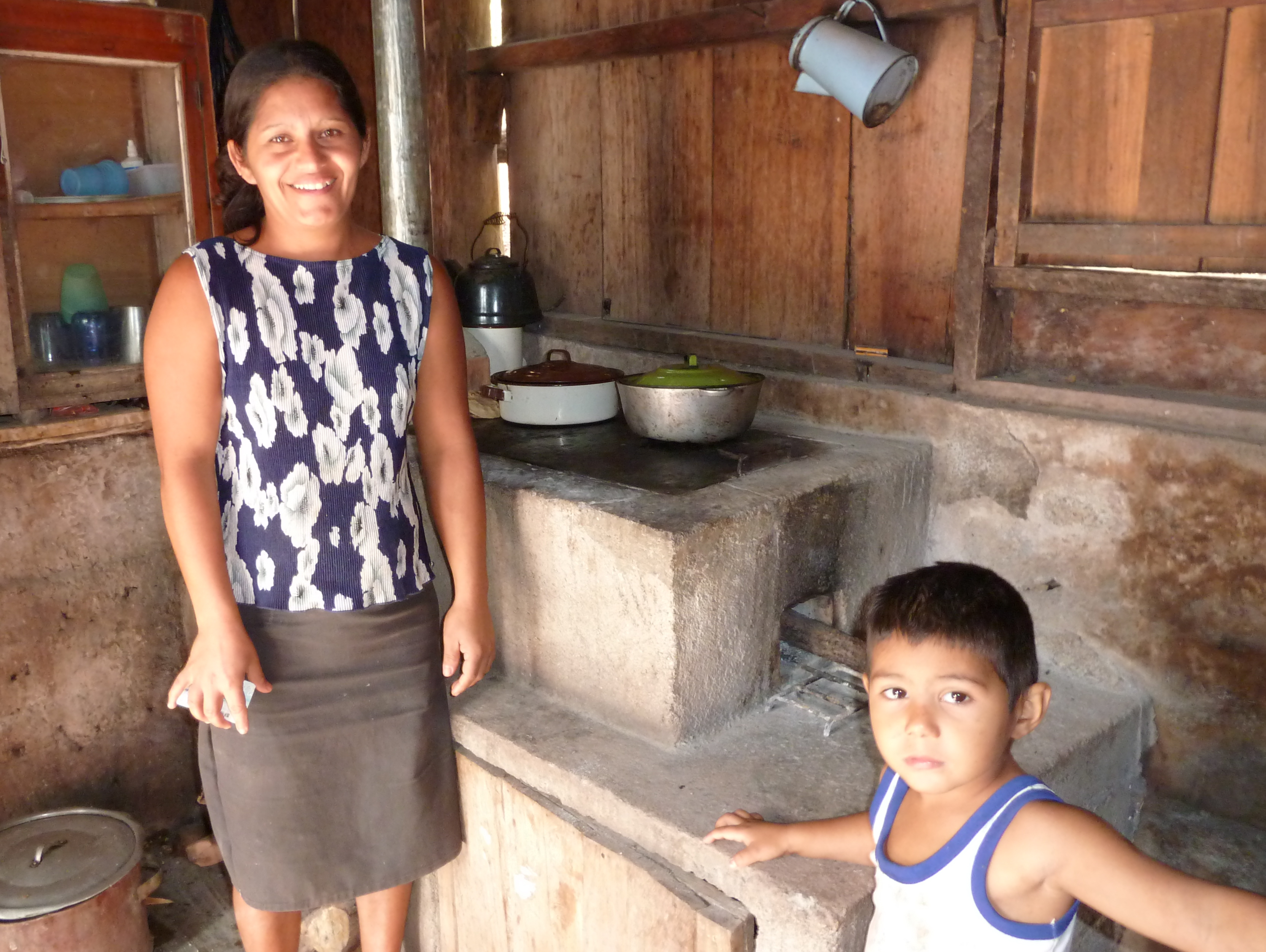 A Dos por Tres stove used by a beneficiary.